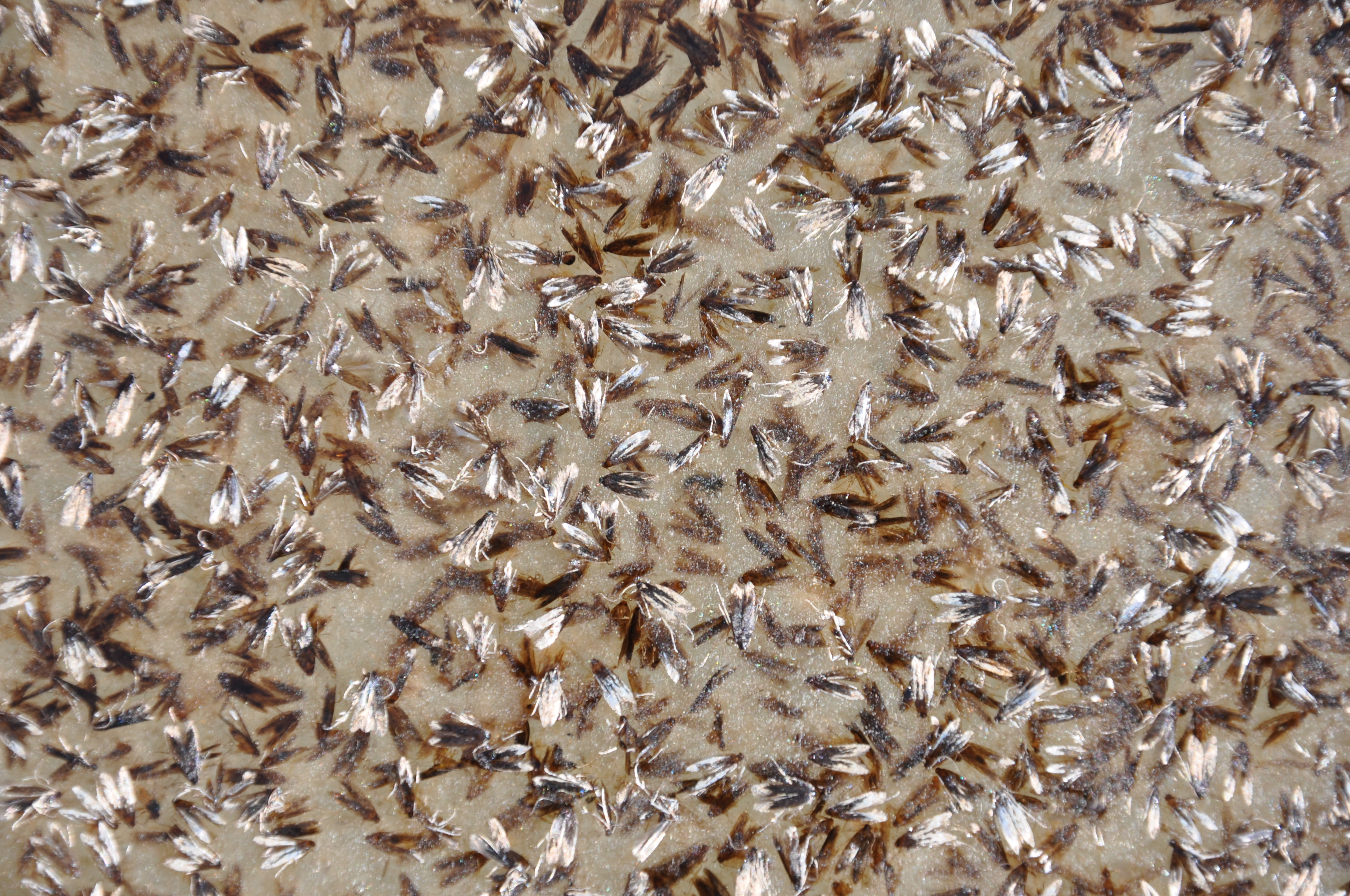 Male Tuta absoluta moths trapped in water via pheromon traps. Photo has taken in an open tomato field Kurşunlu, Antalya, Türkiye.